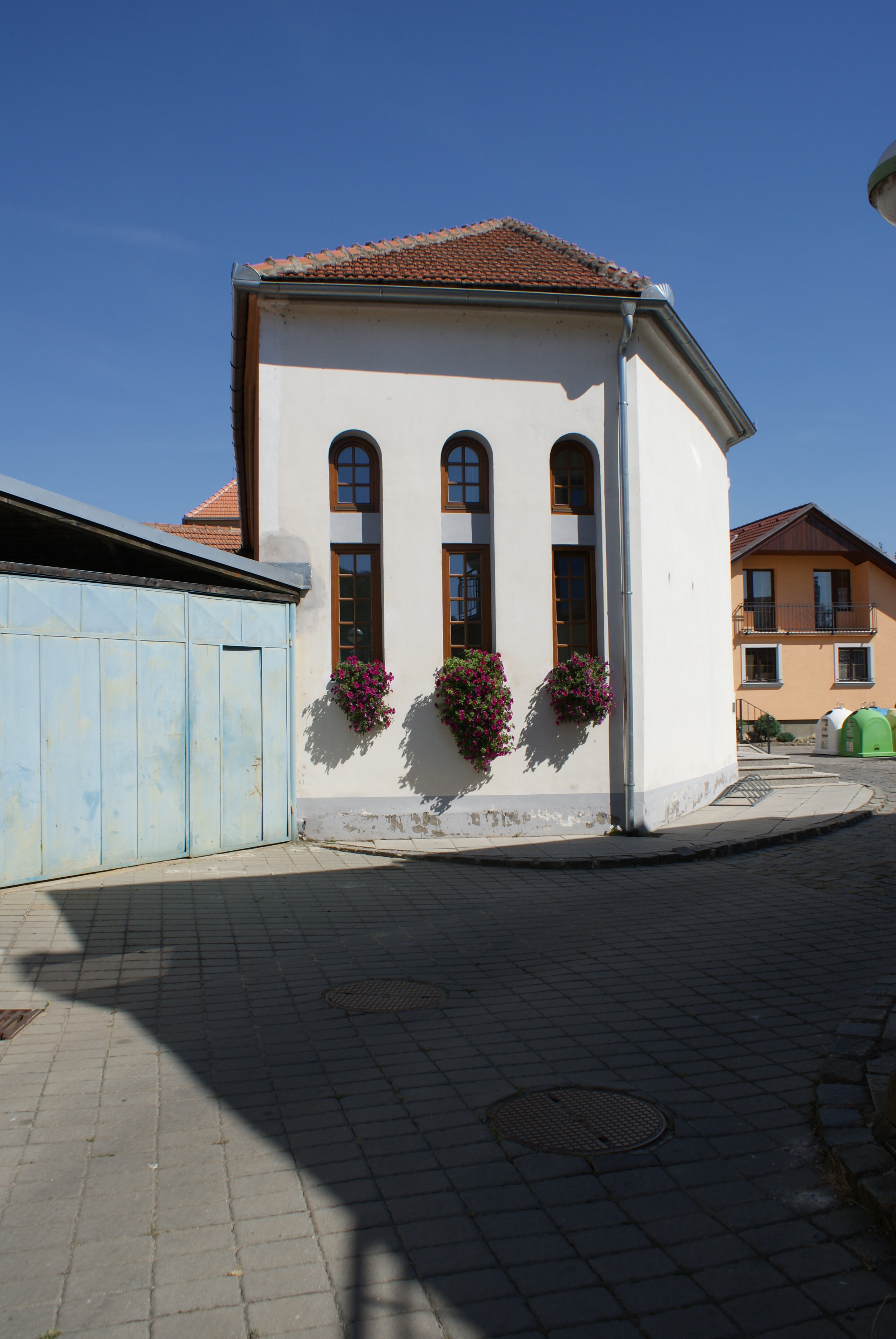 Former synagogue in Veseli nad Moravou, Hodonín district, Czech Republic.